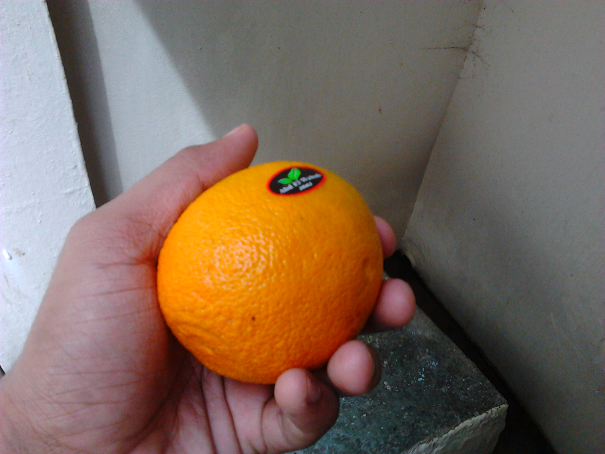 A hybrid lime in India.